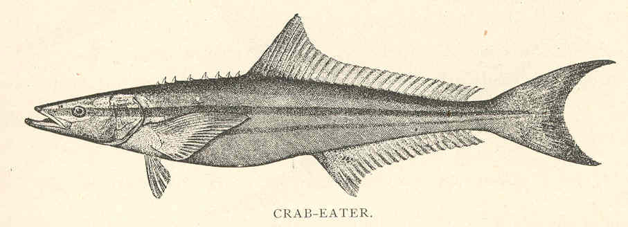 Crab-Eater (Rachycentron canadus Linnaeus) Subject: Rachycentridae Tag: Fish